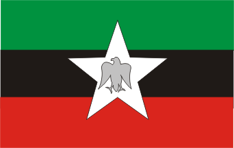 PADELIMO flag